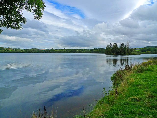 Loch of Clunie The island on the right (which is on the gridline between NO1144 and NO1143)contains the ruins of Clunie Castle. The island is thought to be man made.